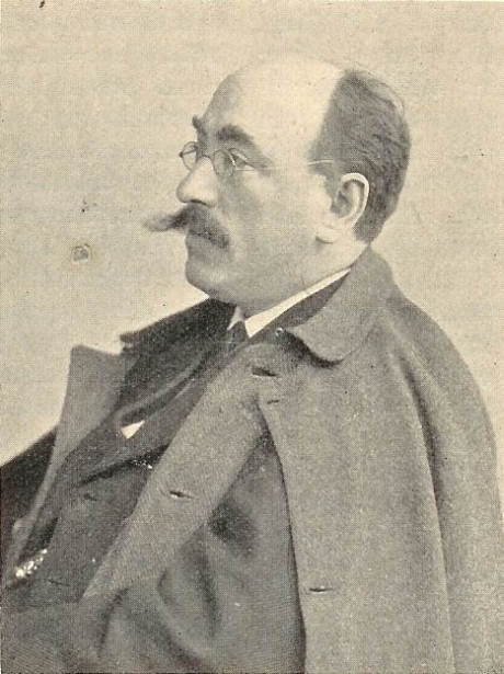 The painter Franz Bunke